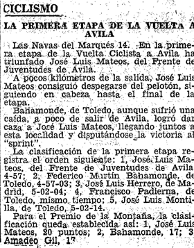 Capture the newspaper ABC on Friday June 15, 1951. First stage of the Tour of Avila. (* There are some spelling mistakes because of the limited information at the time. José Luis sometimes comes with name Mateos, although it is Matthew. As Bahamontes, which is sometimes called Bahamonde.